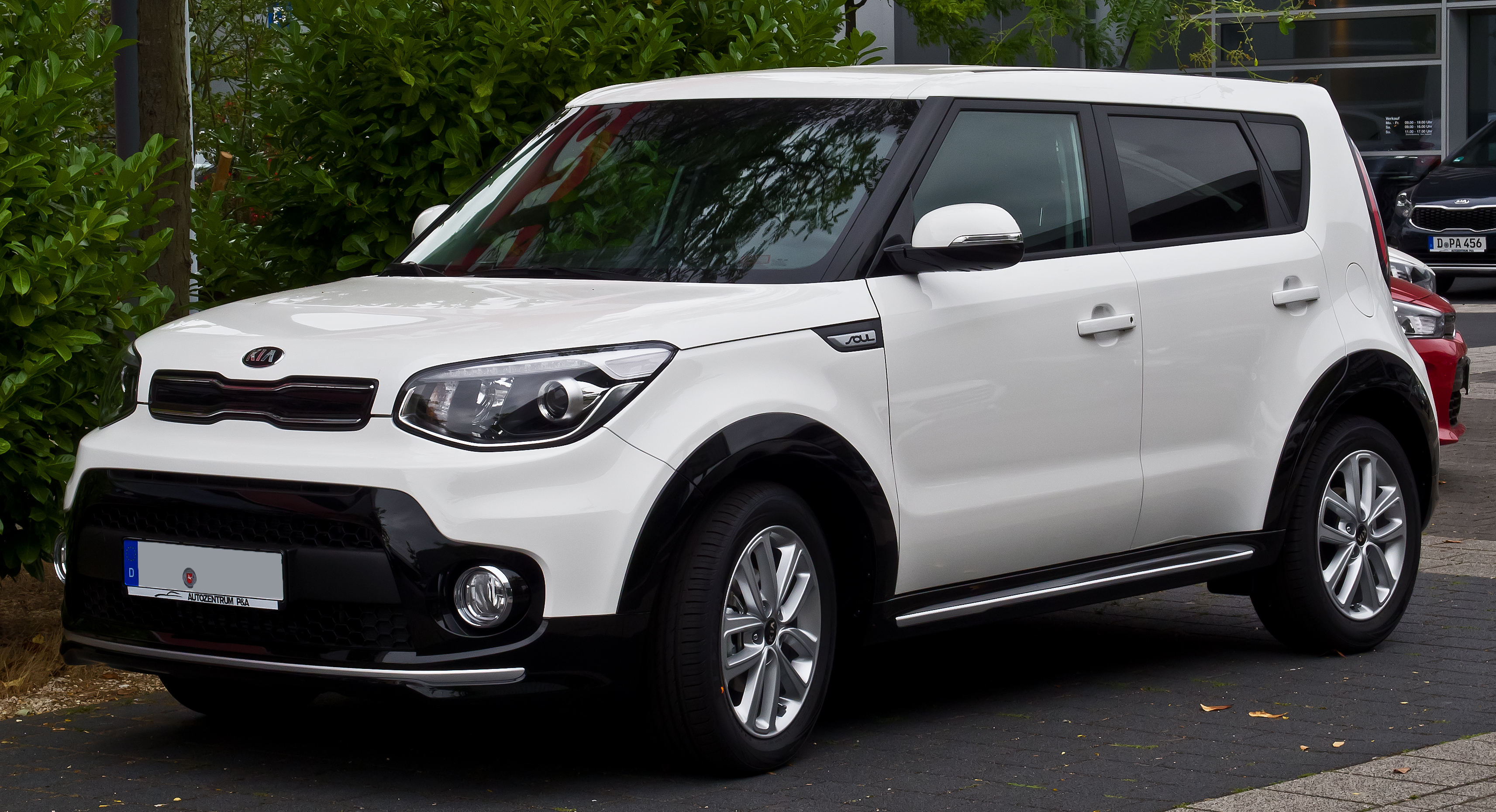 Kia Soul 1.6 CRDi Dream-Team Edition (II)